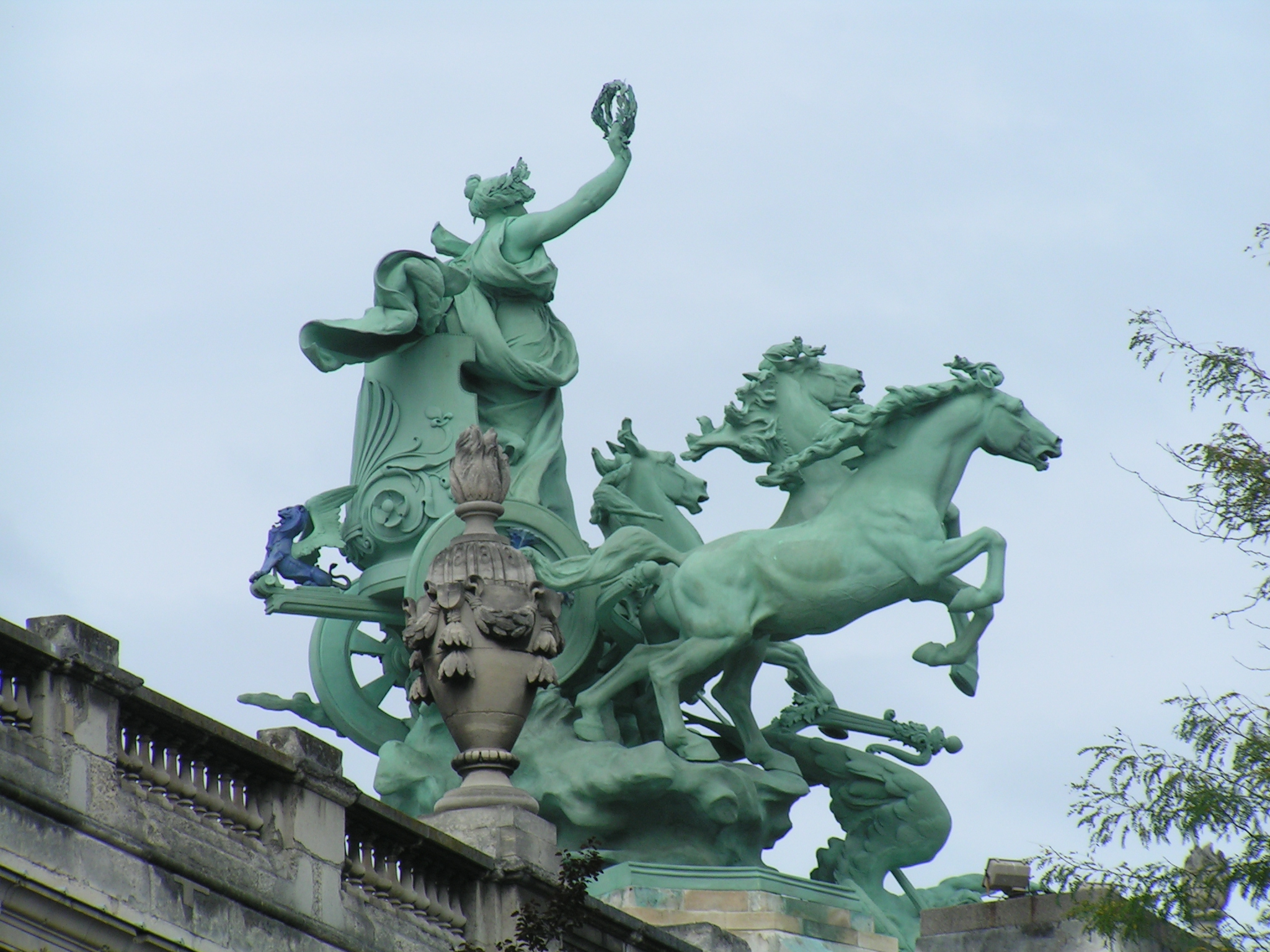 Immortality outstripping Time, quadriga by Georges Récipon. A detail of the Grand Palais, Paris. Taken September 11th 2005.